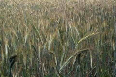 Corn